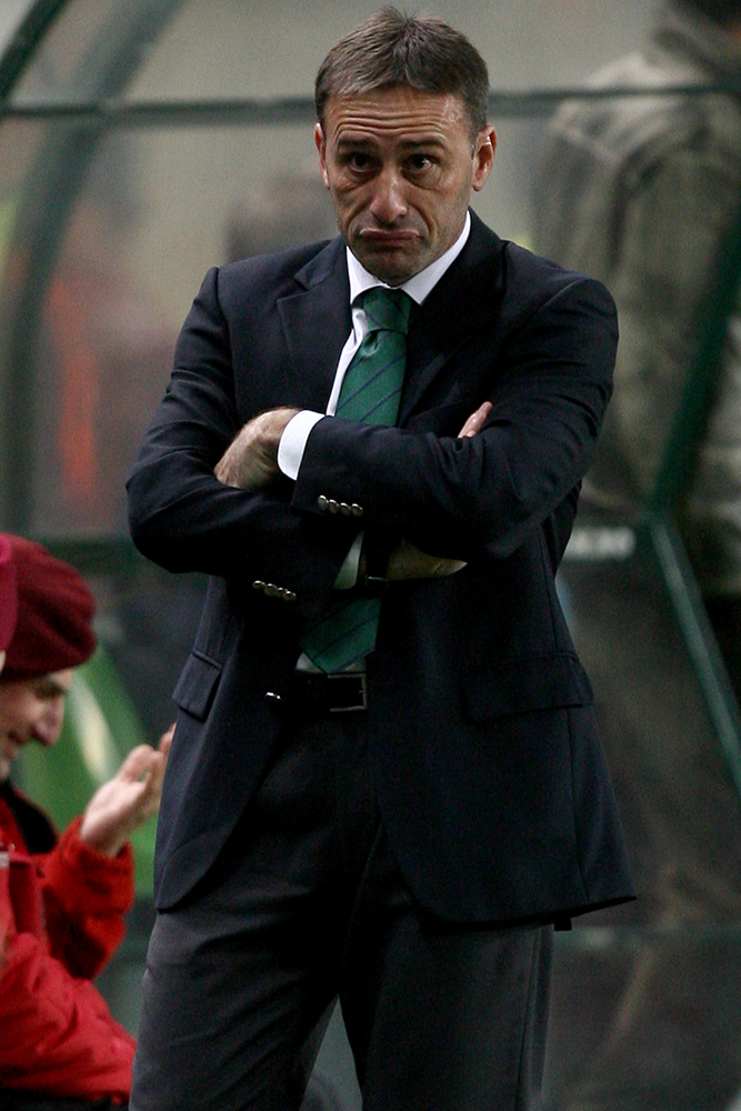 Paulo Jorge Gomes Bento coaching Sporting Clube de Portugal vs Sporting Braga.